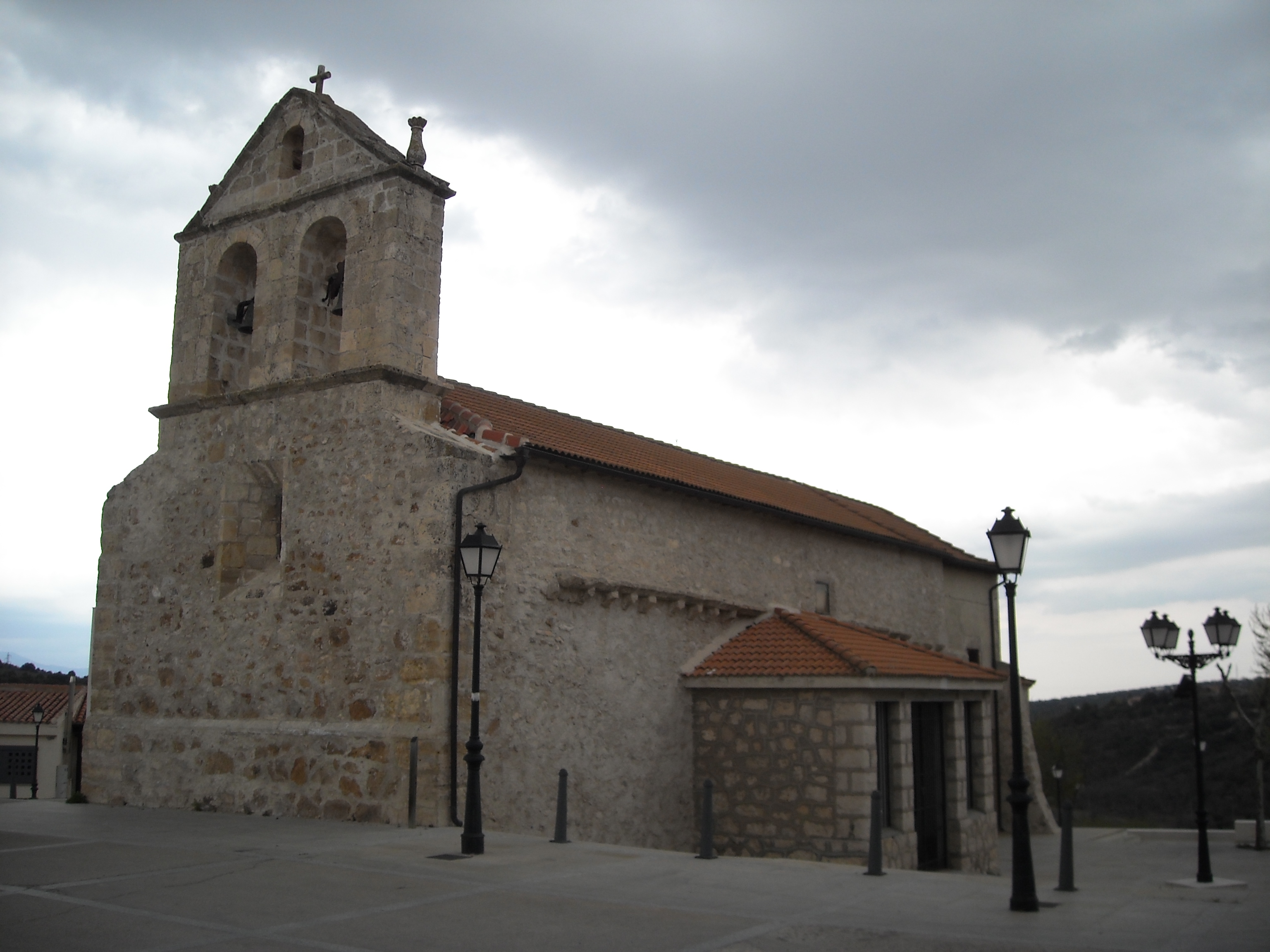 Church of St. James, Venturada, Madrid, Spain